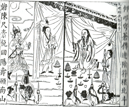 A Qing Dynasty illustration of Wei Yan ruining Kongming's ritual.